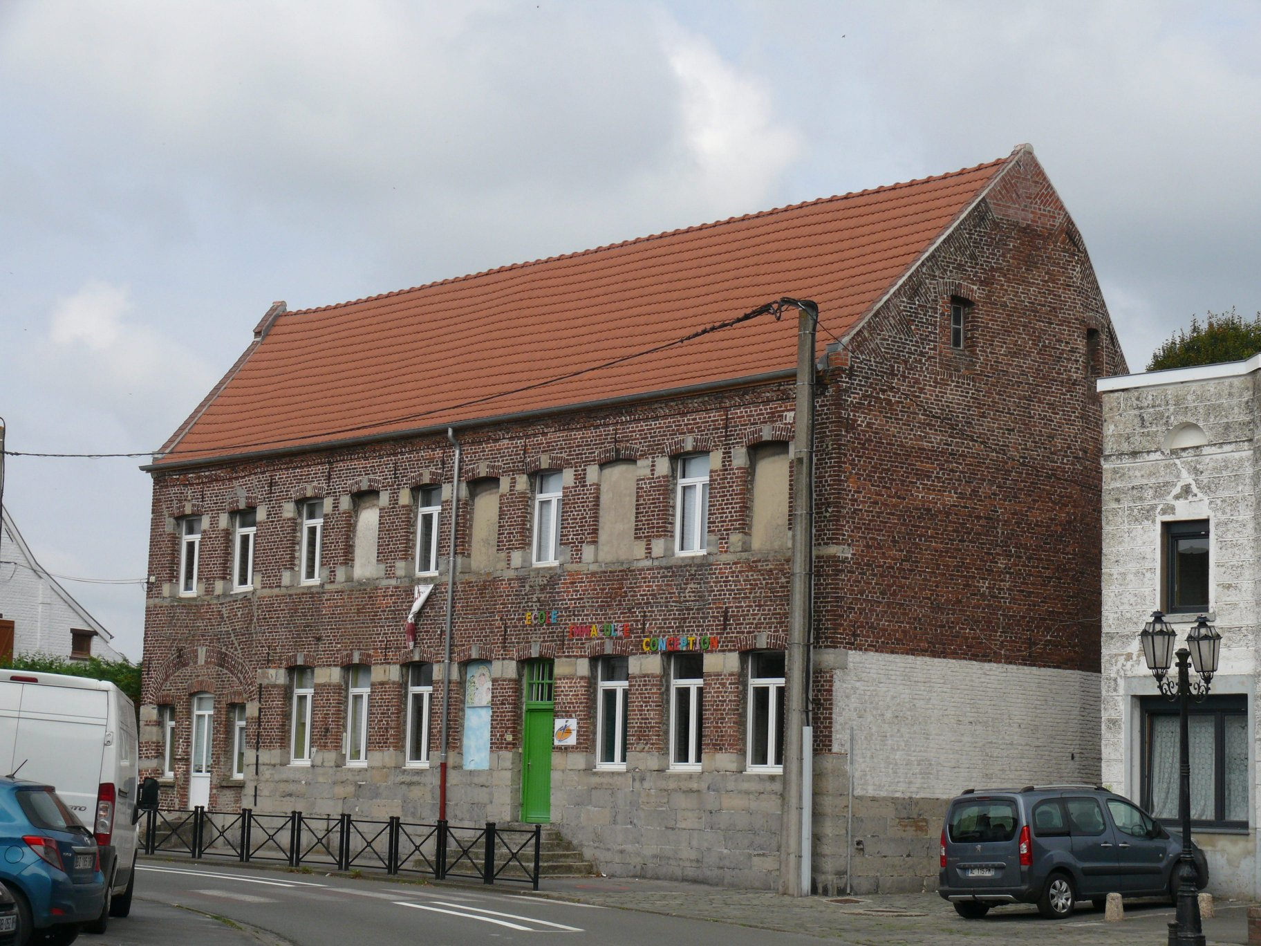 Immaculate-Conception's school of Rumegies (Nord, France).